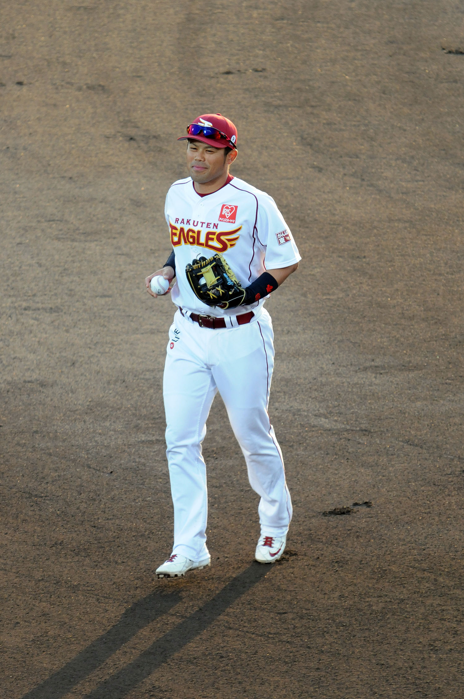 Toshiaki Imae, infielder of the Tohoku Rakuten Golden Eagles, at Akita Prefectural Baseball Stadium.